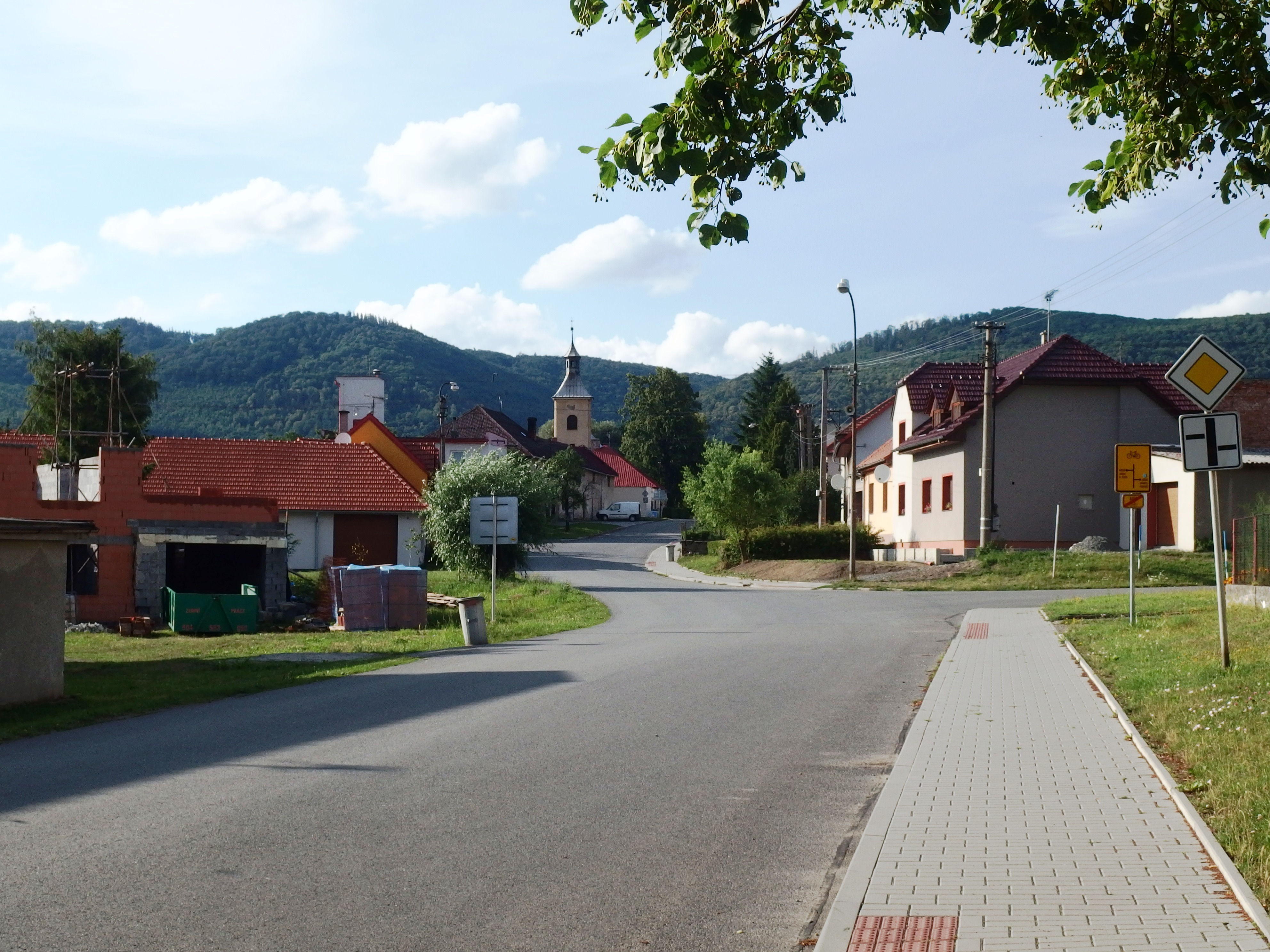 Lipník nad Bečvou, Přerov District, Czech Republic, part Loučka.